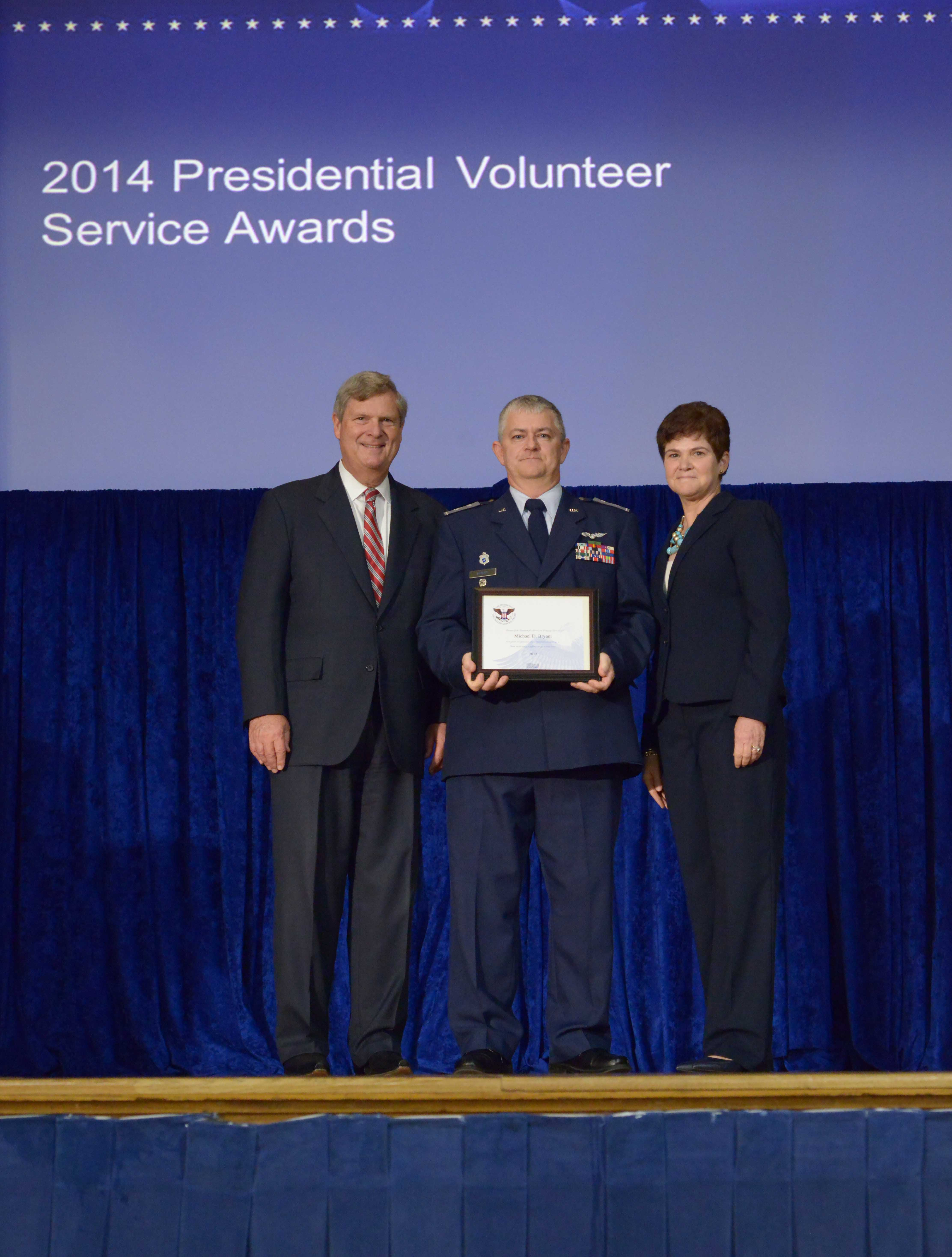 Agriculture Secretary Tom Vilsack and Agriculture Deputy Secretary Krysta Harden present the President’s Gold Volunteer Service Award to U.S. Department of Agriculture (USDA) Agricultural Research Service (ARS) employee Major Michael D. Bryant, Civil Air Patrol (CAP), at USDA’s 66th Annual Honor Awards Ceremony in Washington, D.C. on Thursday, Nov. 6, 2014. The President’s Gold Volunteer Service Award is given to an employee that has served 500 hours or more of service with a qualifying organization over the 12-month period. USDA photo by Lance Cheung.